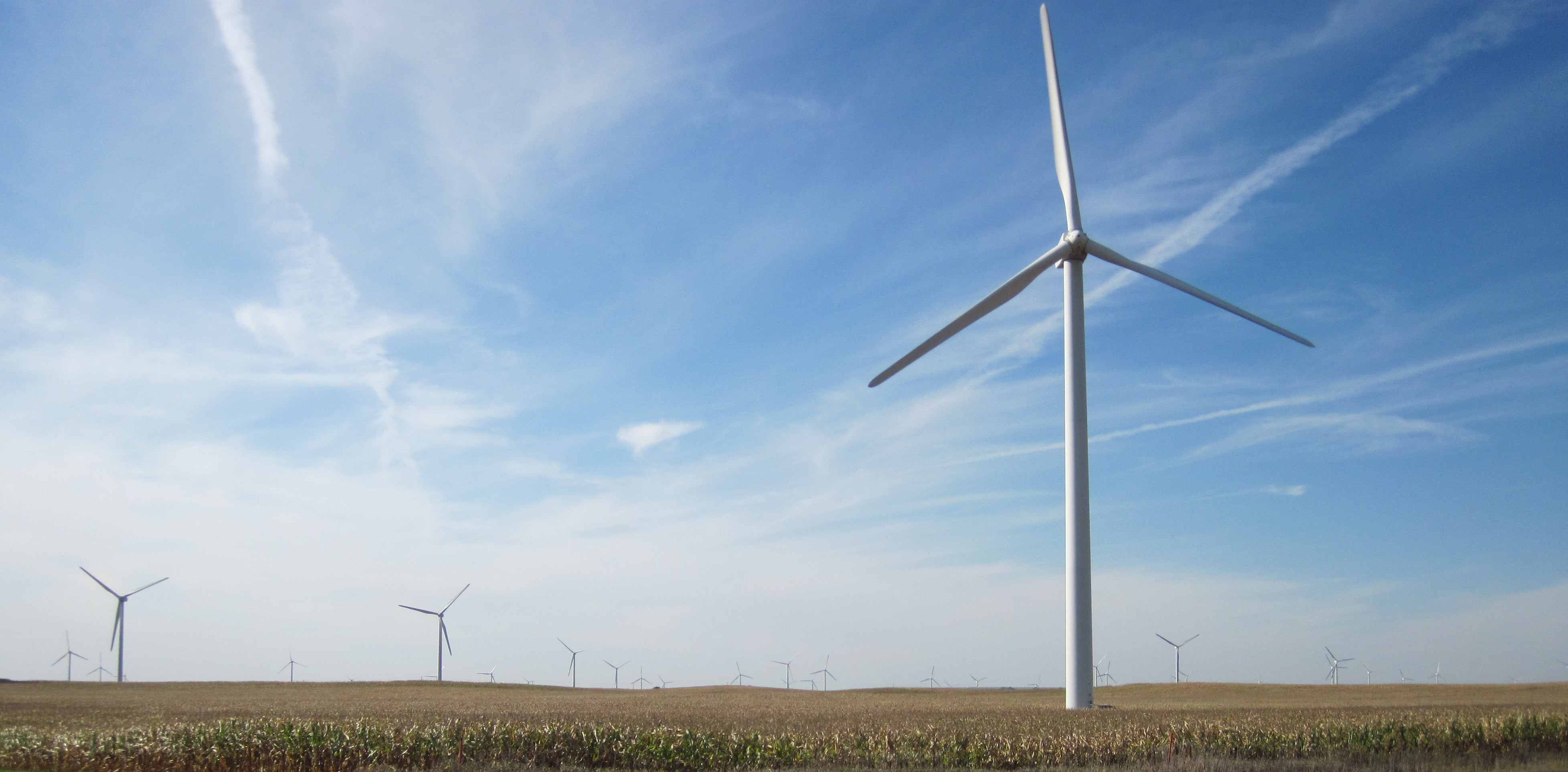 wind turbine farm west of Williams